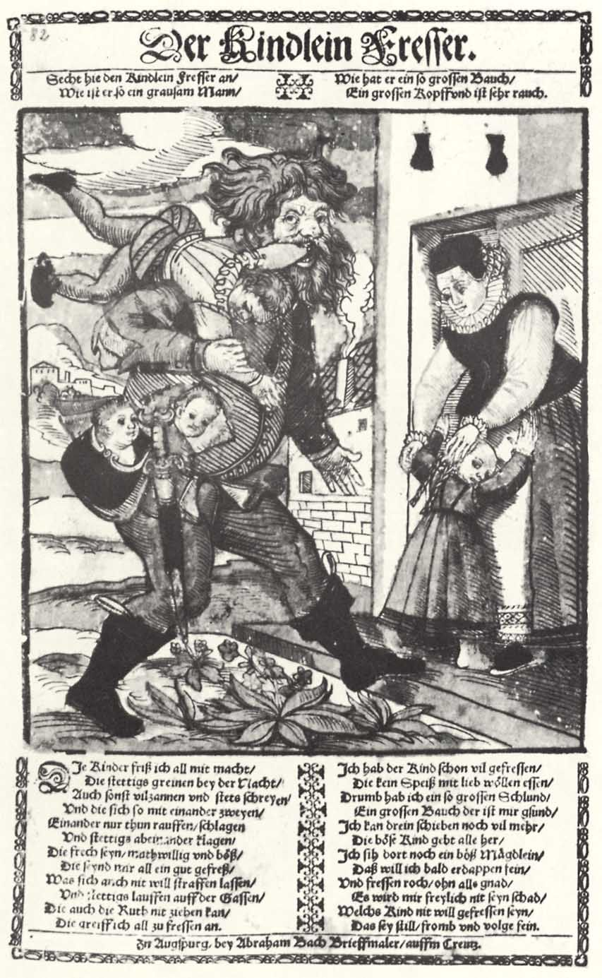 „Der Kinderfresser“ (The child eater), woodcut by Abraham Bach, Sr.